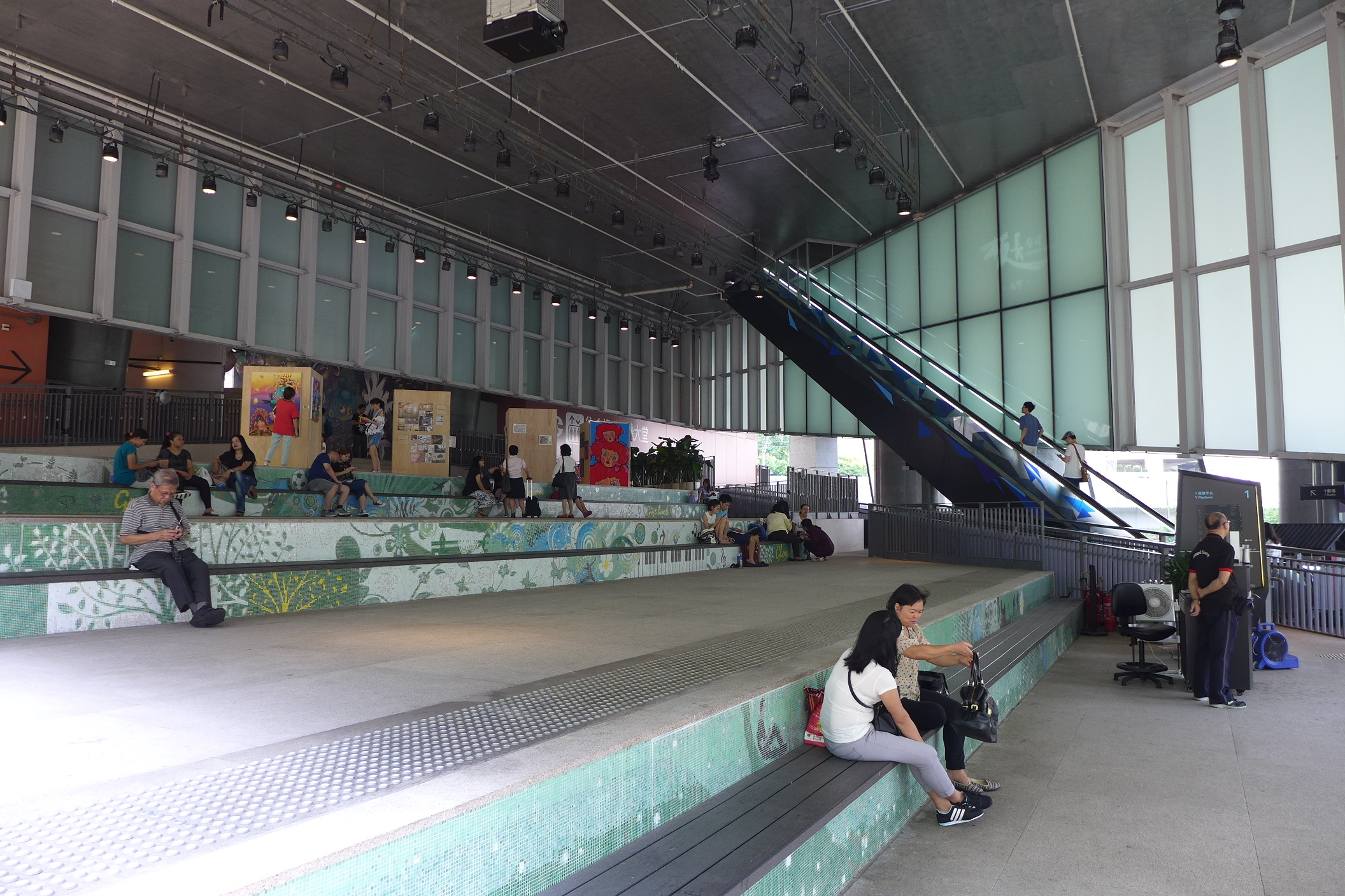 Youth Square Y Platform